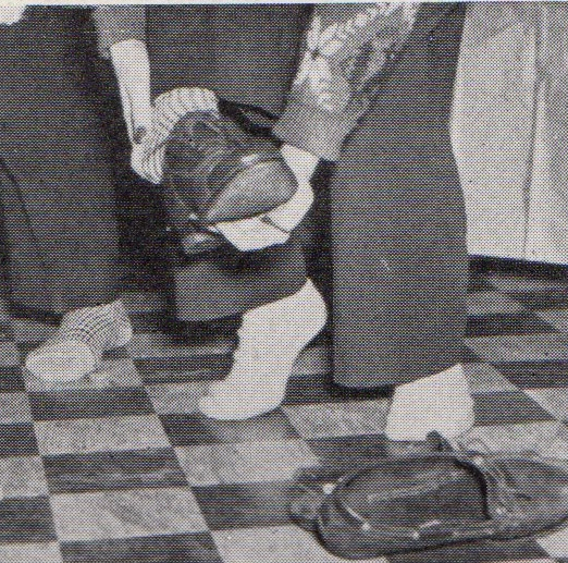 Photograph of attendees removing or putting on shoes at a "Sox Hop" at Shimer College in 1947-1948, from the 1948 Shimer yearbook (page 51). The Sox Hop is mentioned elsewhere in the yearbook as having been sponsored by the school YWCA. Now a liberal arts college in Chicago with a Great Books curriculum, Shimer was then a four-year women's junior college in Mount Carroll, Illinois. Published in the school's 1942 yearbook, which does not contain a copyright notice. Additionally in the public domain due to the terms of dedication of the Shimer College Collection (which includes a copy of this yearbook) to NIU in 1979, which vested literary rights in the collection in the public.